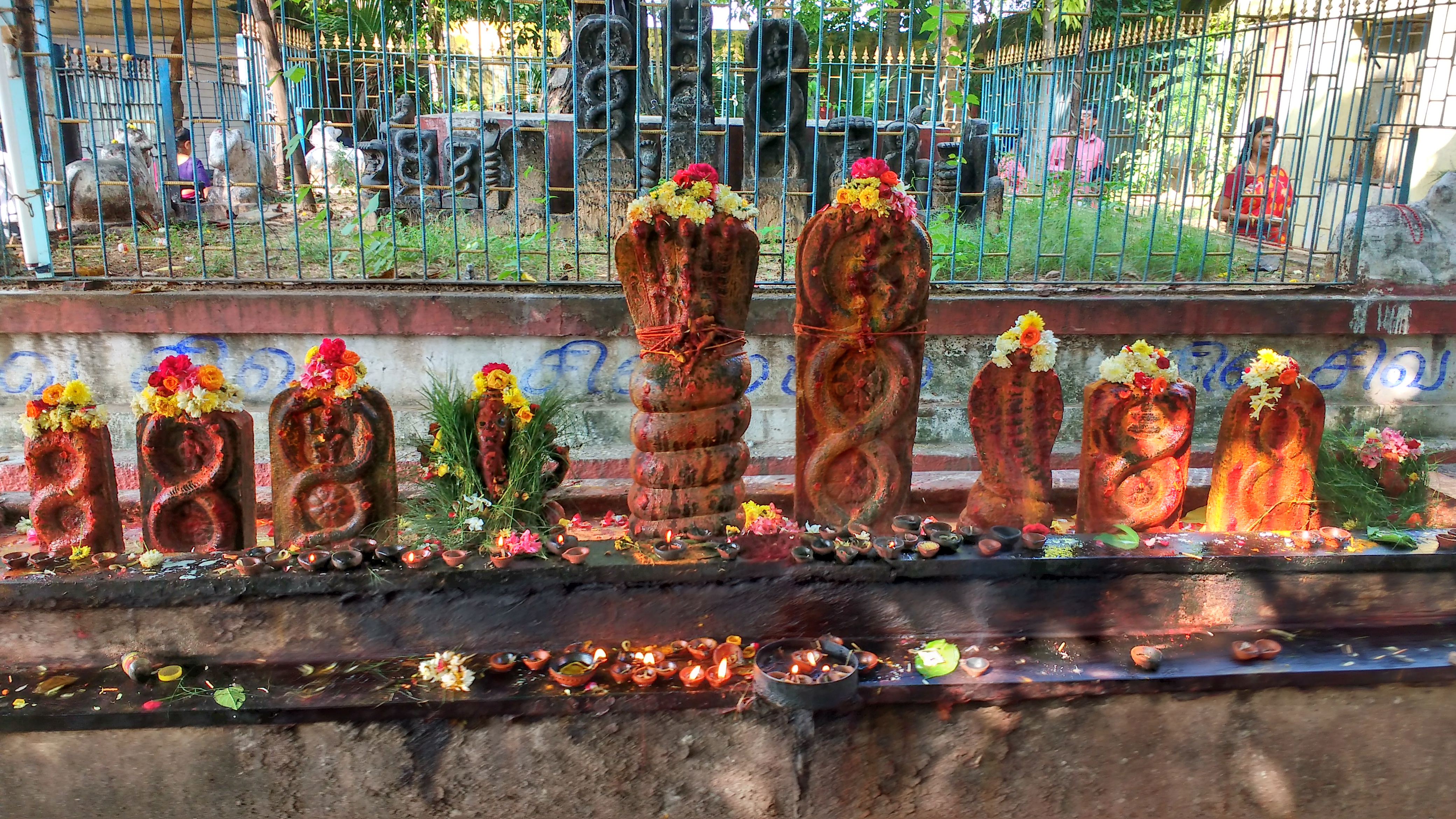 Snake Worship in India